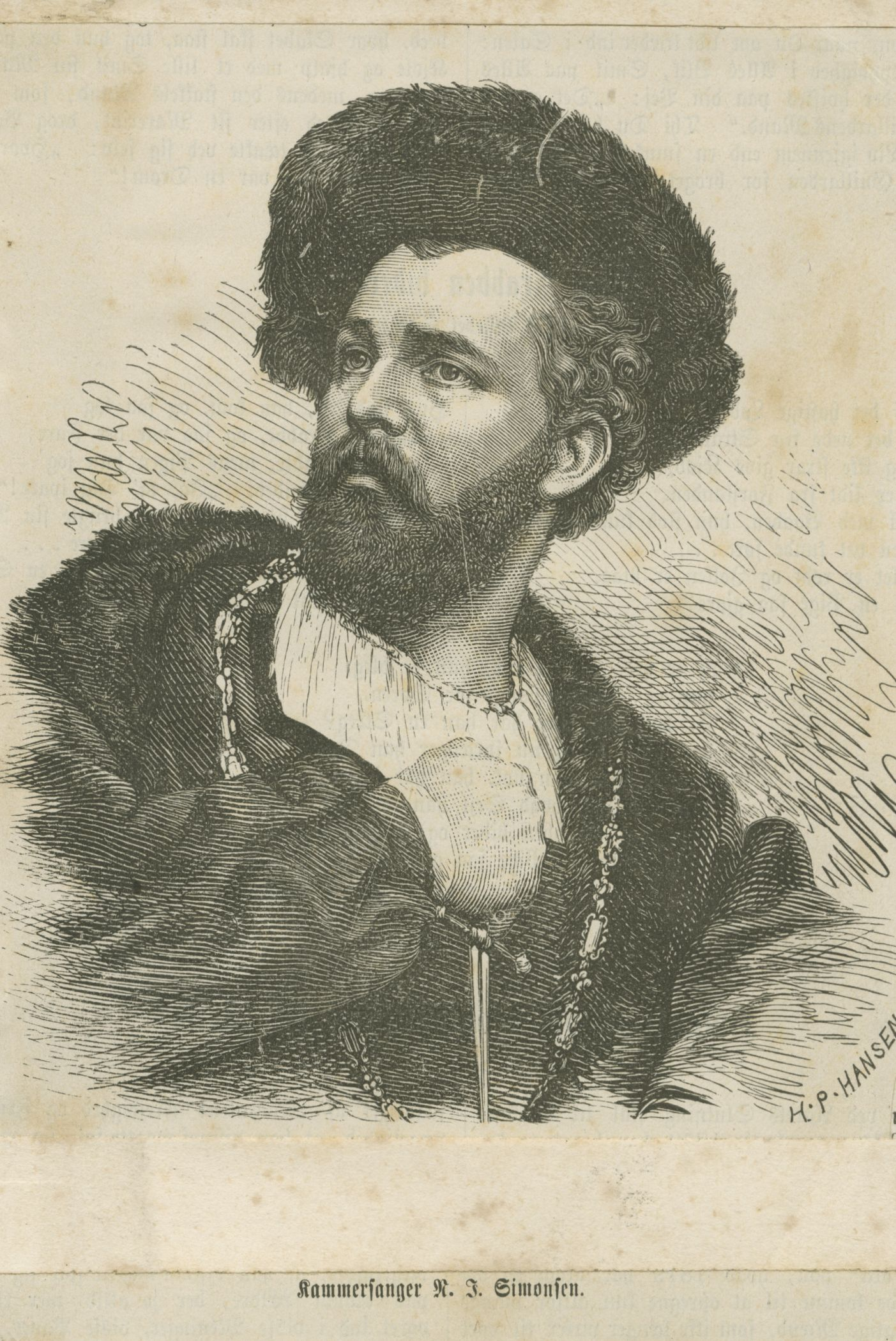 Artist: H. P. Hansen Date/place: Subject: Niels Juel Simonsen Medium: Engraving Notes: Danish baryton. Born in Copenhagen 16.05. 1846 - dead in Copenhagen 25.05. 1906 Original belongs to the Archives at [#//bergenbibliotek.no/digitale-samlinger” Bergen Public Library]